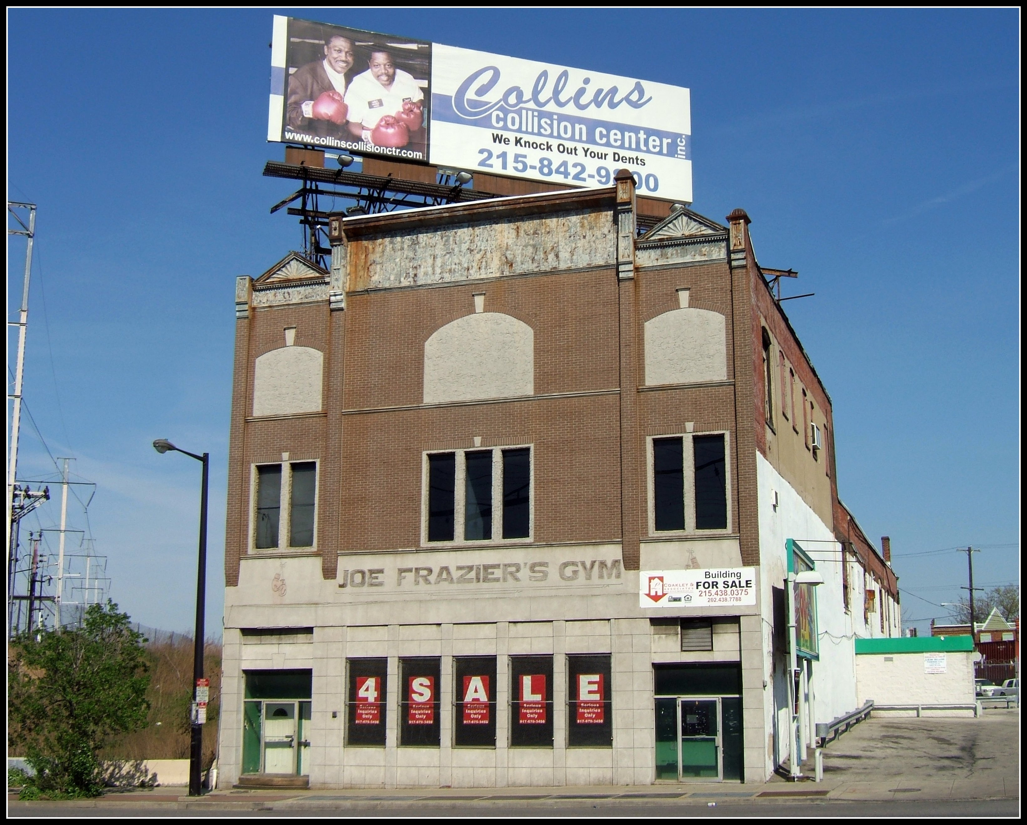 Joe Frazier's Gym, for sale, in Philadelphia.